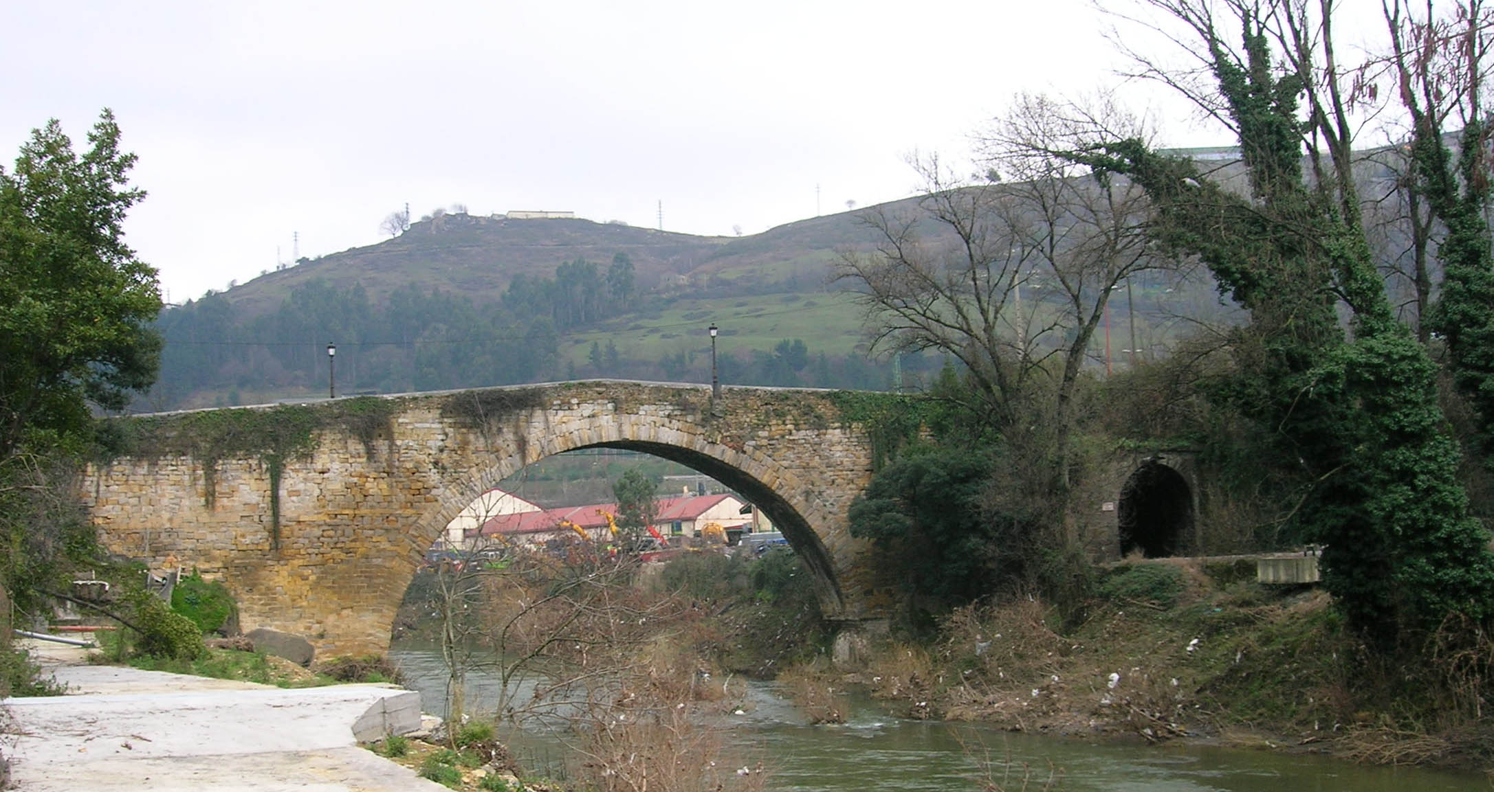 Devil's Bridge over river Cadagua, between Las Delicias-Urgozo (Barakaldo) and Castresana (Bilbao), built in 1435-1436. There is a grey heron on one of the trees at the right.